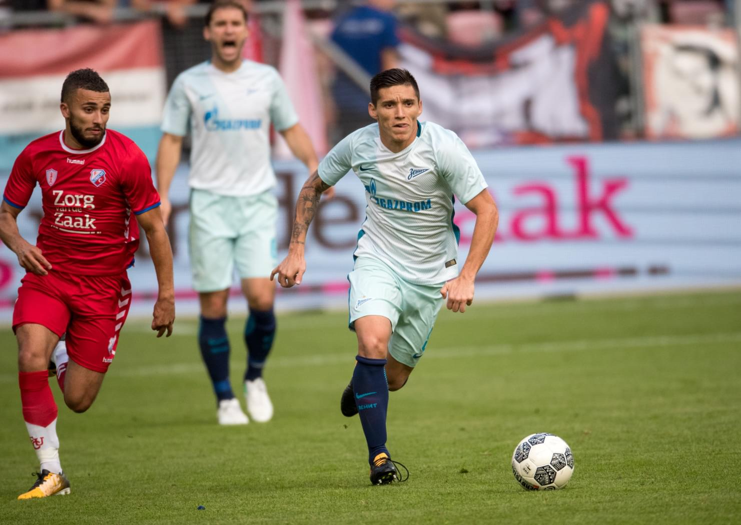 16.08.2017. Нидерланды, Утрехт, стадион «Галгенвард». Лига Европы УЕФА 2017/2018, 4-й квалификационный раунд, «Утрехт» — Зенит».